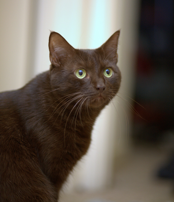 he didnt give me that lion that was released into the wild and then saw his human friend from 12 years ago reaction but it's still good to be back.